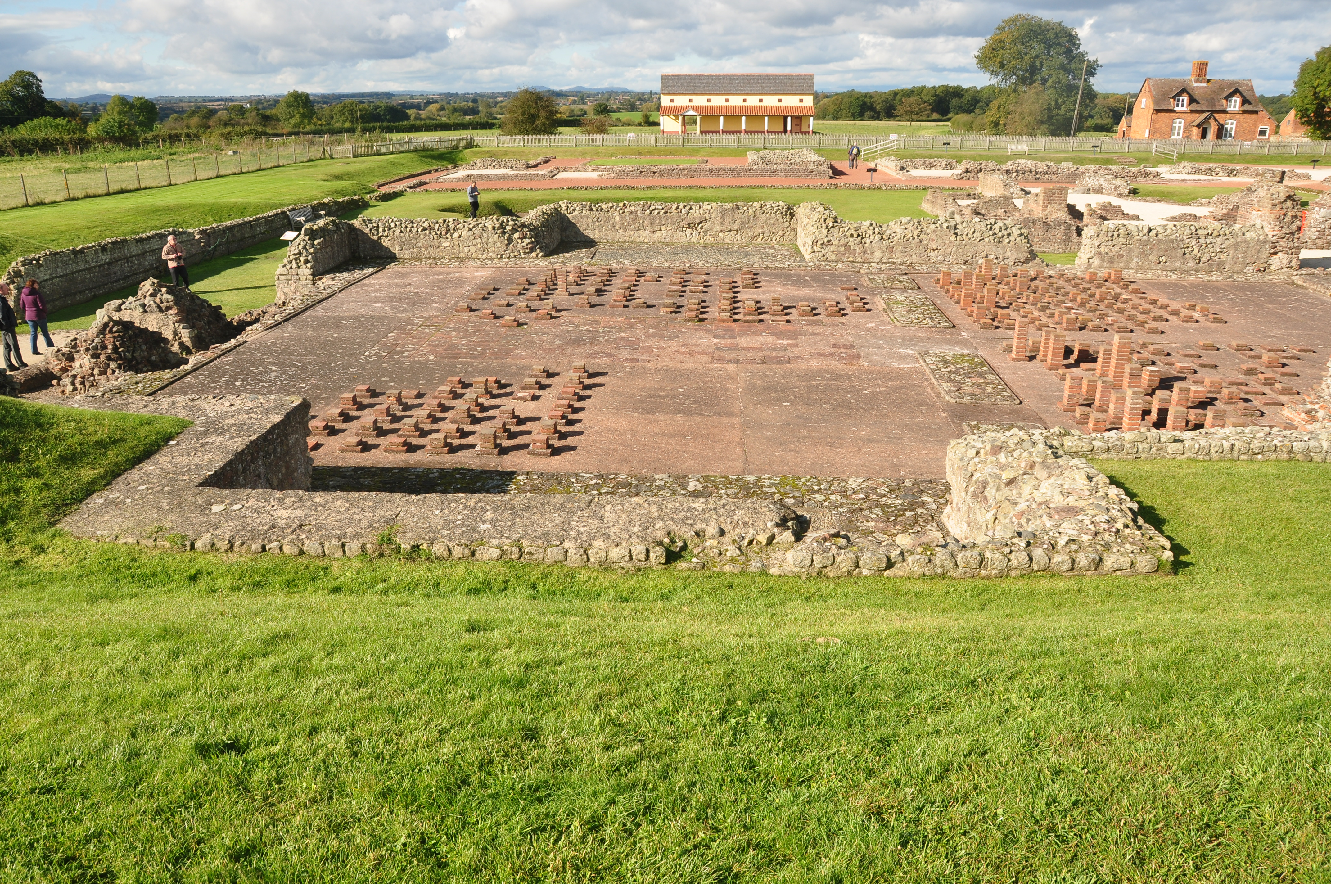 Roman ruins at Wroxeter